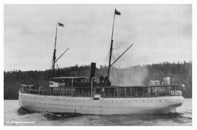 Passenger steamer S/S Ångermanland